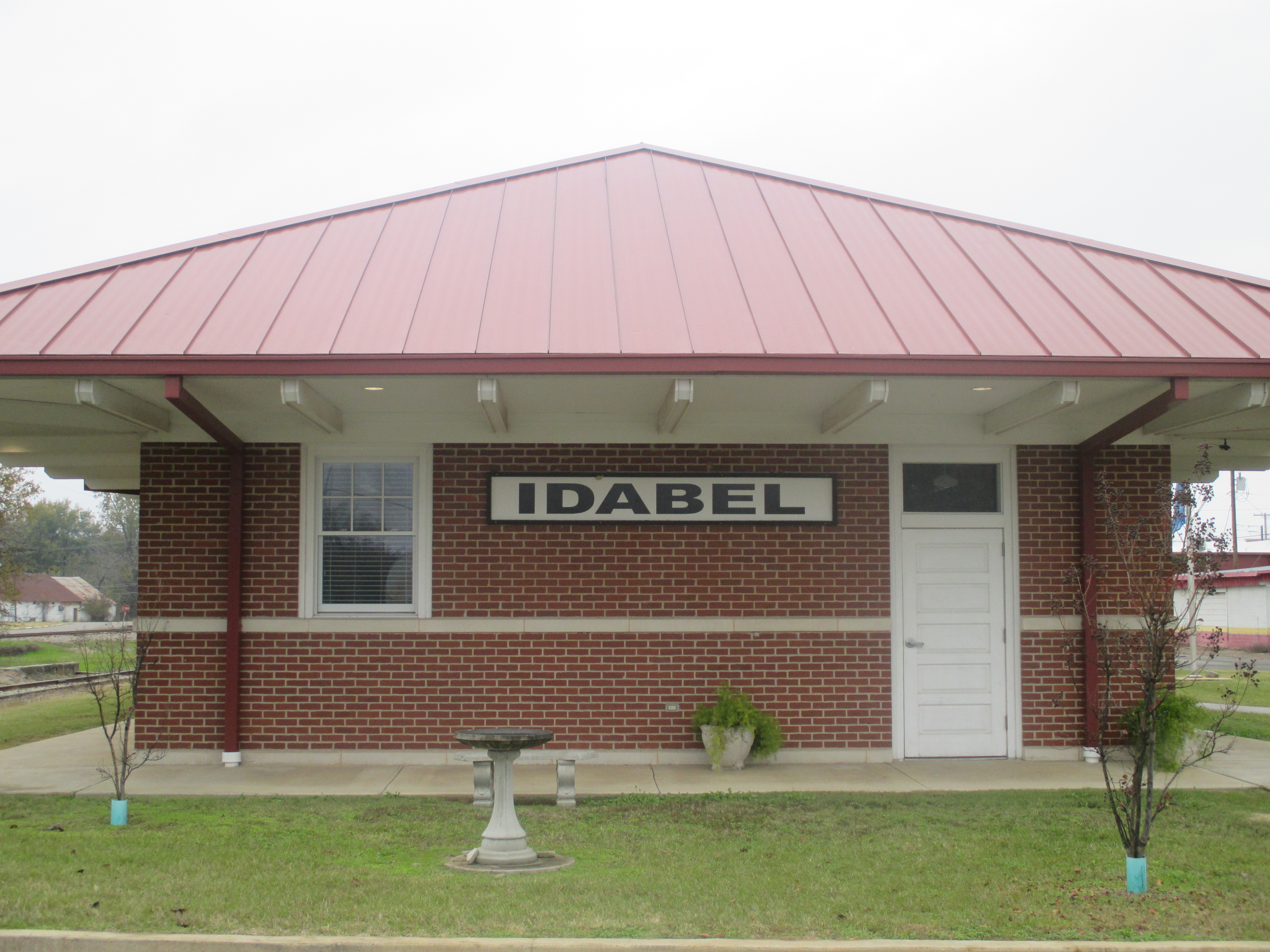 I took photo with Canon camera of train station in Idabel, OK.